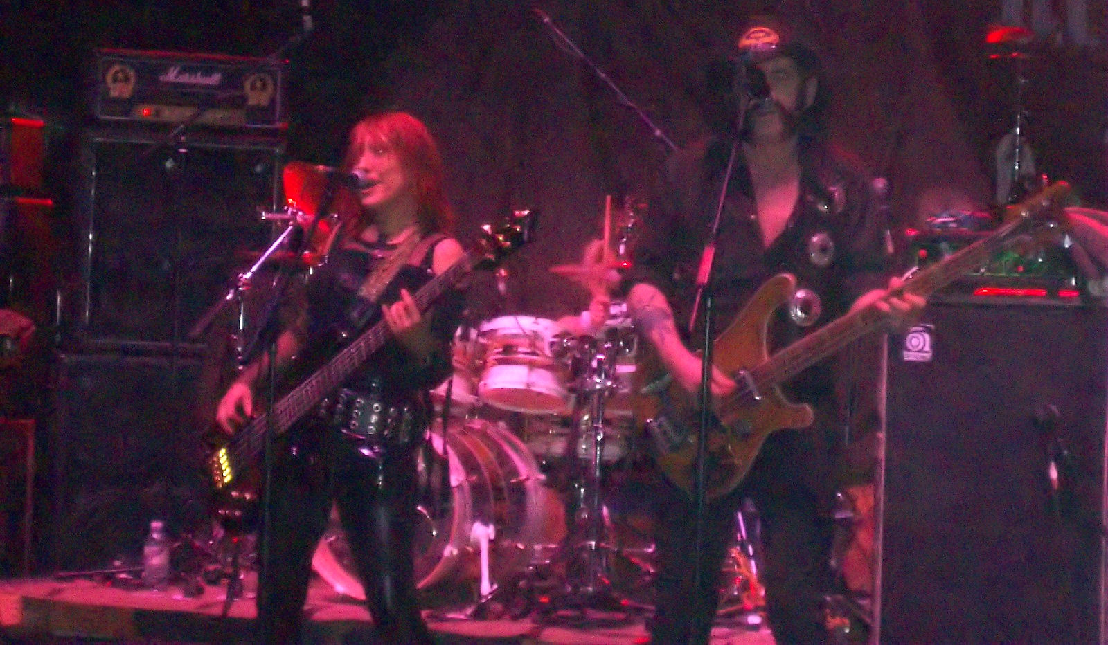 Girlschool's Enid Williams and Motörhead's Lemmy singing "Please Don't Touch" - Hammersmith Apollo 28/11/2009